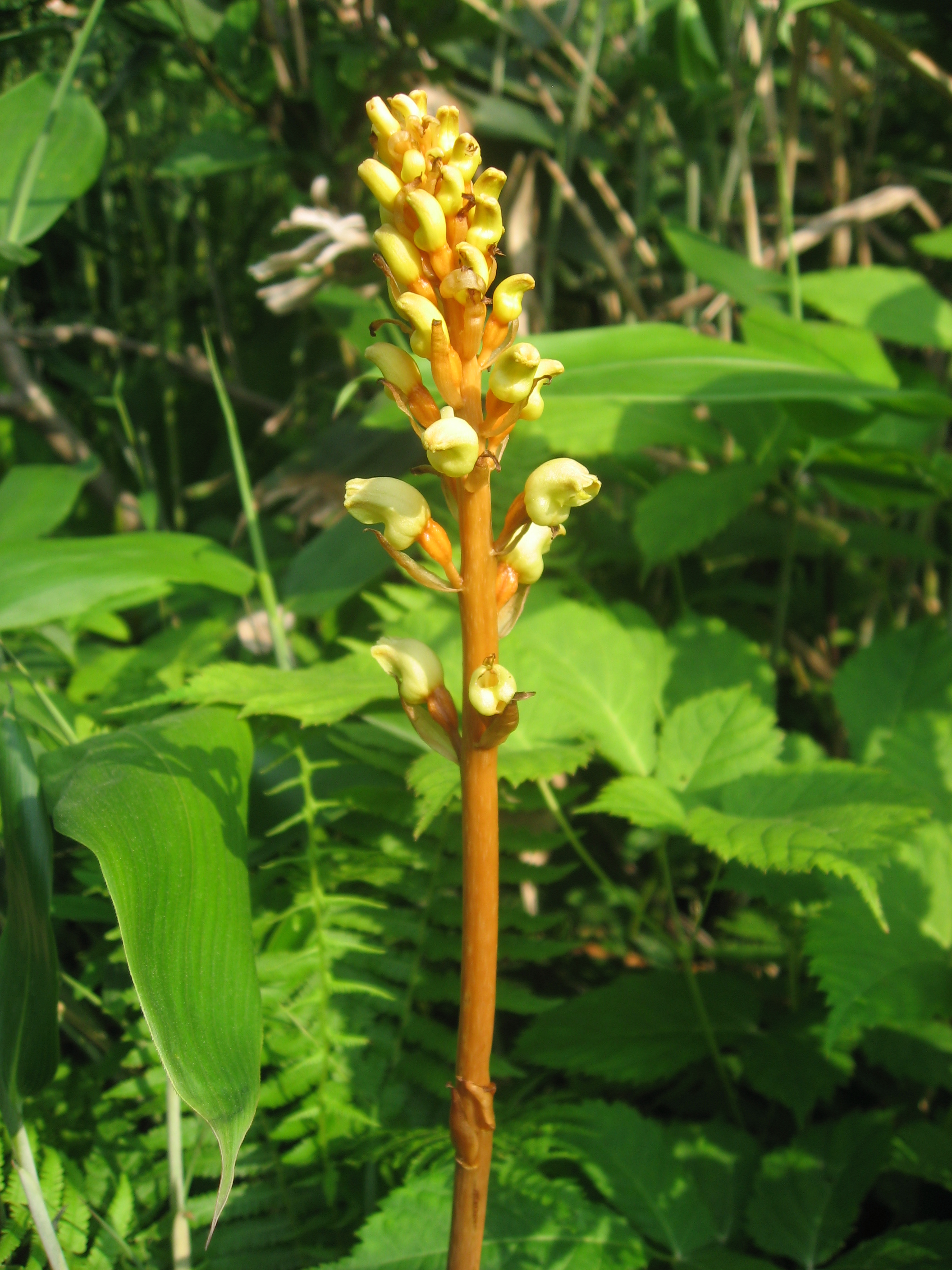 Gastrodia elata, Aizu area, Fukushima pref., Japan